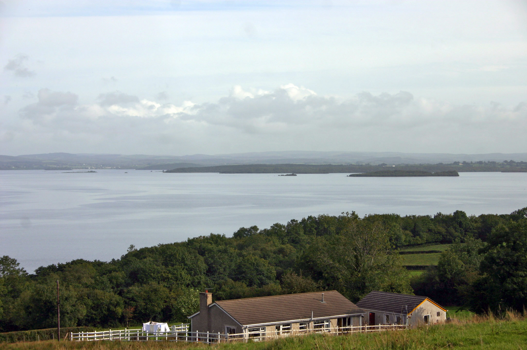 Lough Erne Loch Erne from the single track road down to Tully Castle